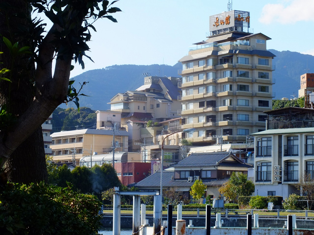 Yumotokan-Ogoto onsen & Ogoto port